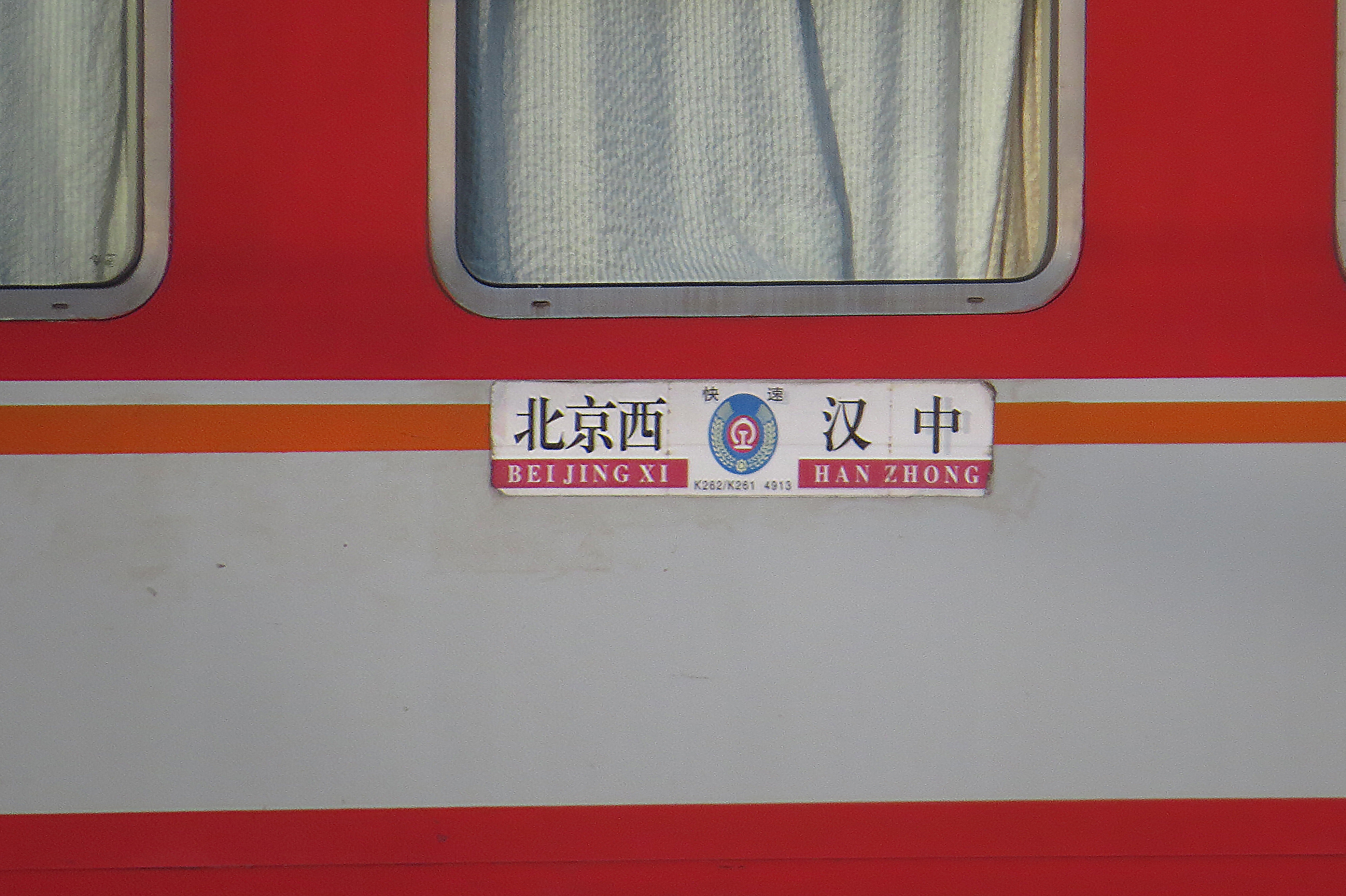 Arriving as K262 from Hanzhong. Full route: 4913 from Ankang to Hanzhong, K262 to Beijing West, K261 to Hanzhong and 0K262 (or something else) back to Ankang.